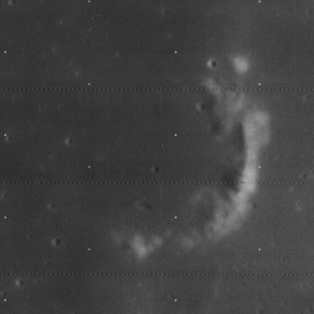 Aryabhata, on the moon.